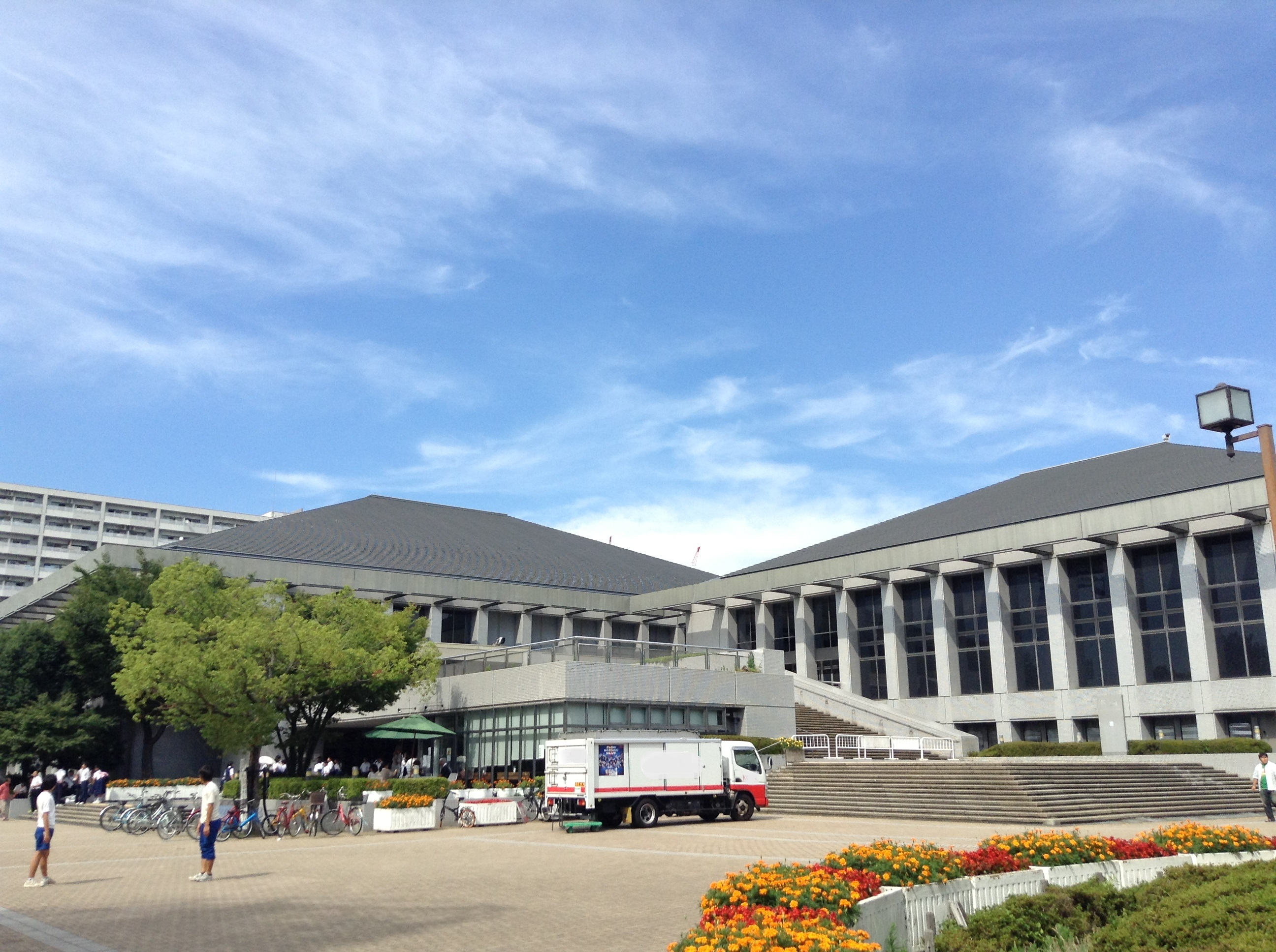 Amagasaki Memorial Park Gymnasium.